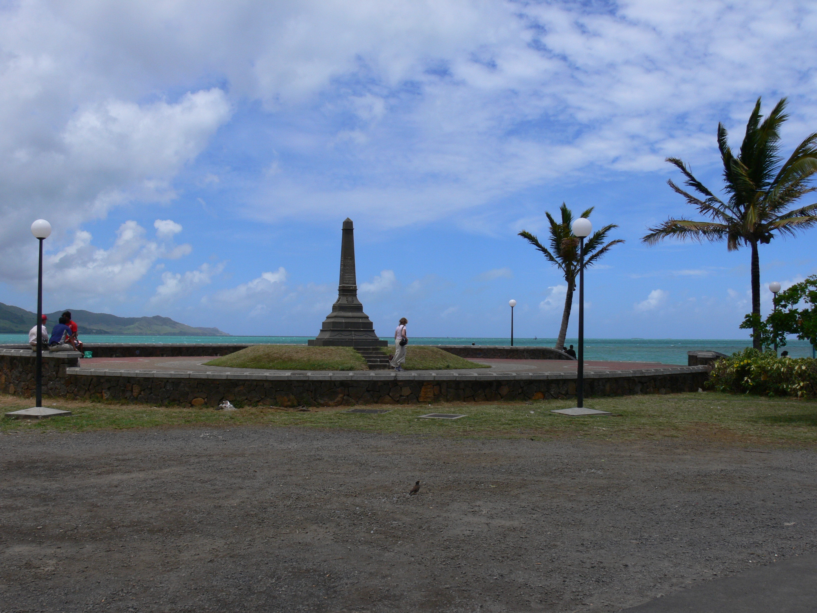 This photograph was made by myself at Grand-Port Mauritius, in the graceful year of 2007 with the digital camera Panasonic FZ-30. This is the monument dedicated to the 1810 battle between French and British navy. This is the bay were all this happened. This monument was created in 1899. It is situated at the place called Point de Régate, on the shore of the harbour of Grand Port, very near Mahébourg (or even inside Mahébourg) I've made several high resolution pictures of the harbour of Grand Port, Mauritius. If you need such pictures write to wikipedia user Alexey M. Author: Alexey Muzalyov